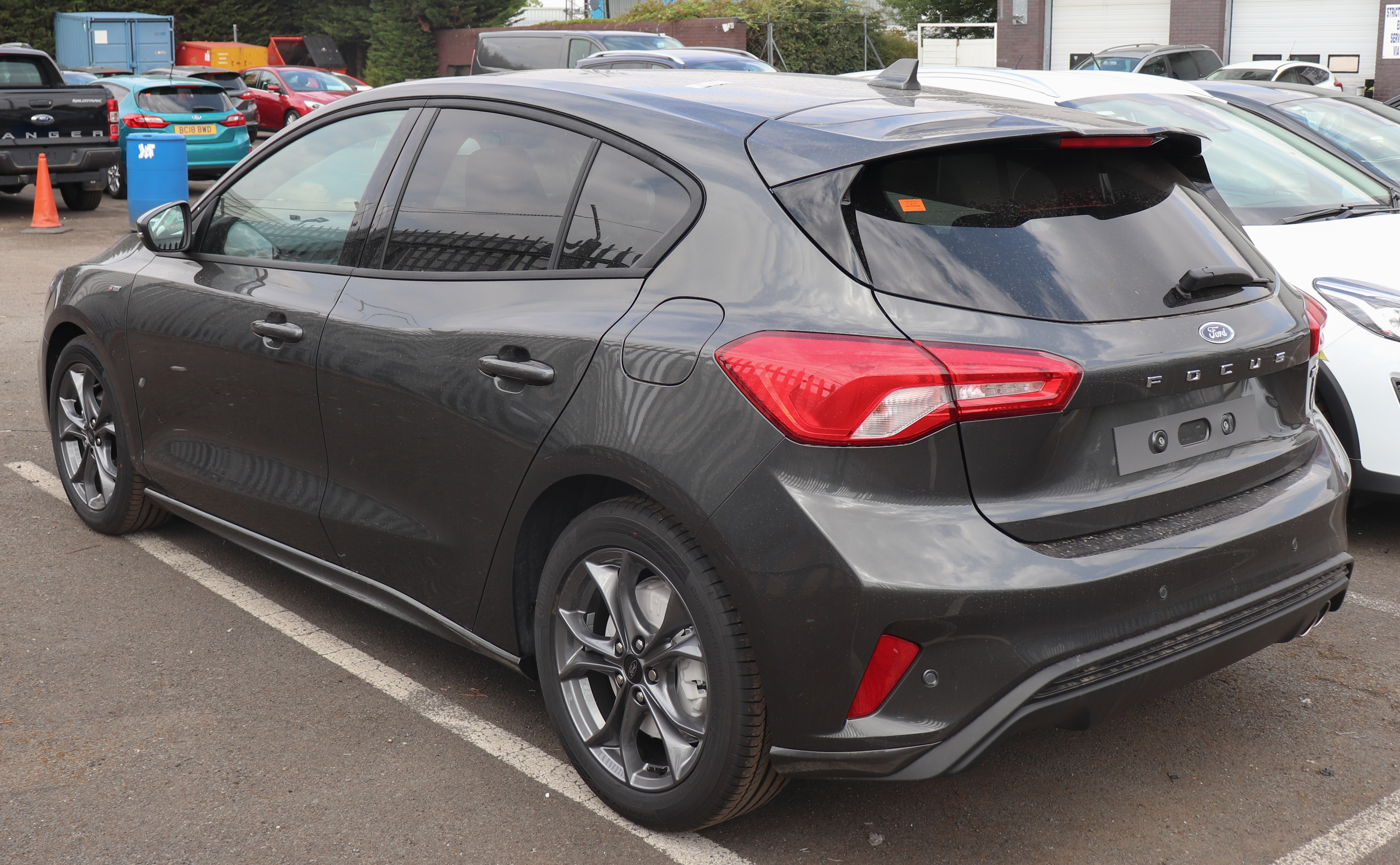 2018 Ford Focus ST-Line Rear Taken in Leamington Spa